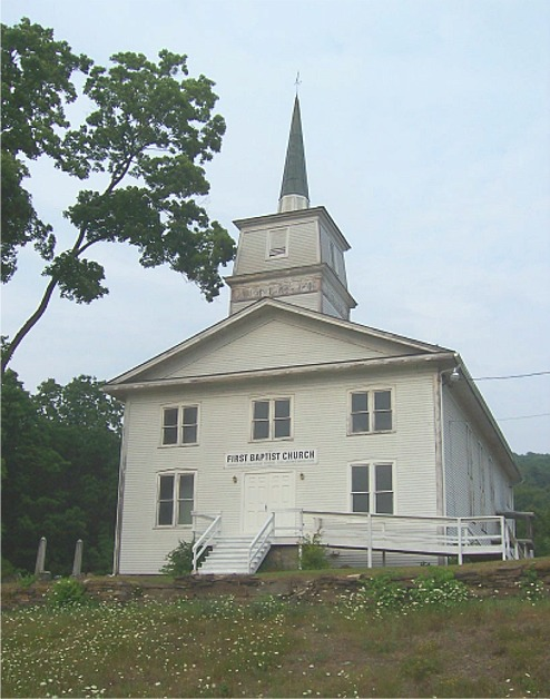 Photographed by Daniel Case on 2005-07-25